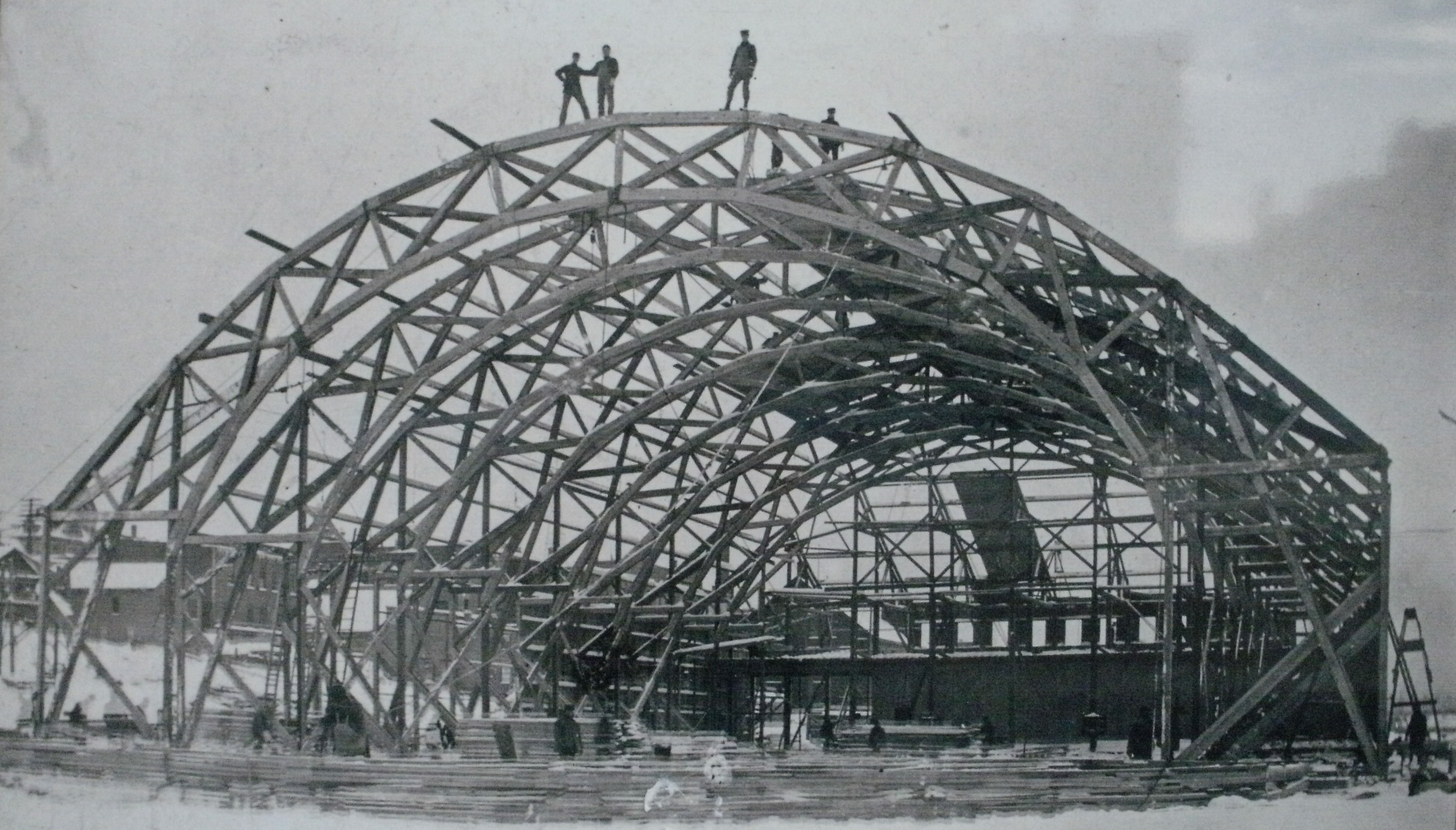 The Amphidrome under construction in Houghton, Michigan (about 1902). This image is affixed to the exterior of the Dee Stadium.